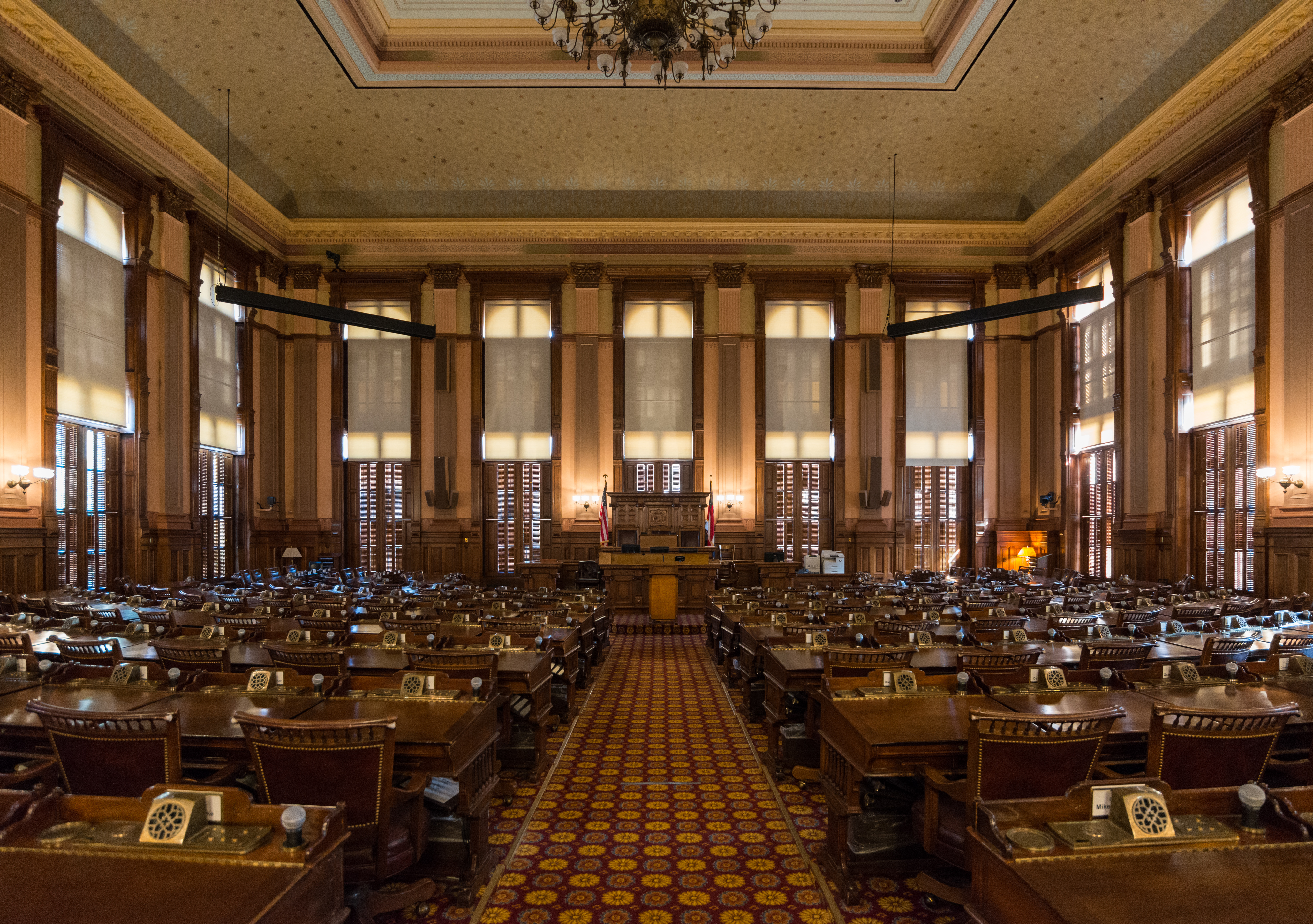 A view of the House of Representative Chamber in the Georgia State Capitol, Atlanta